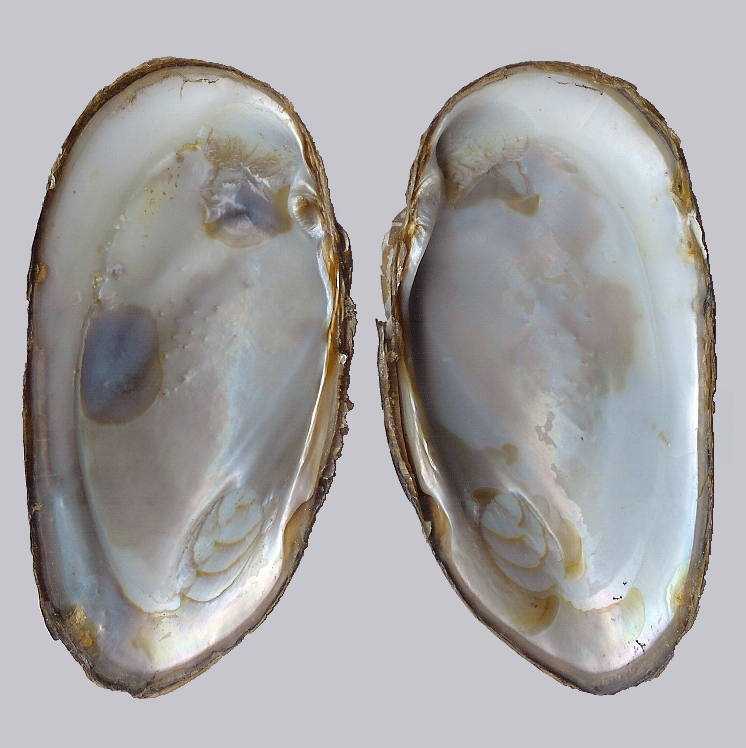 Margaritifera margaritifera, double valved specimen, length 108 mm.,inner side; Teisnach, Germany, 1964